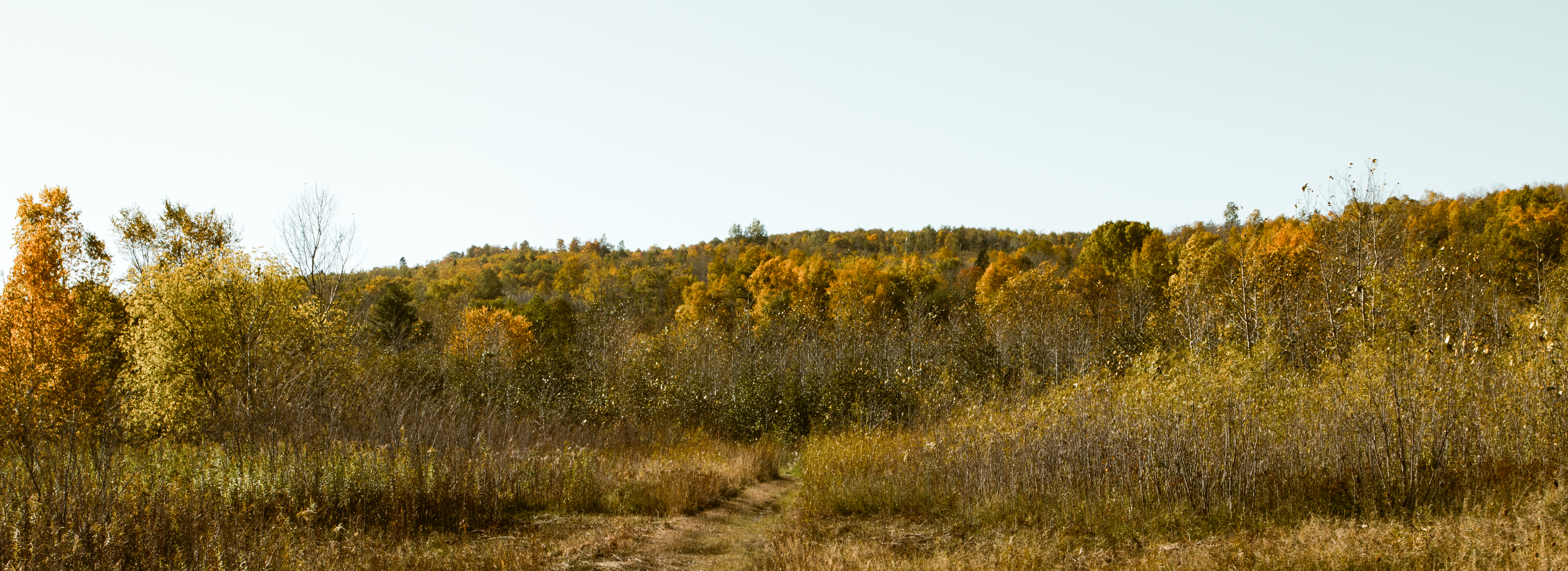 Fall, Duluth